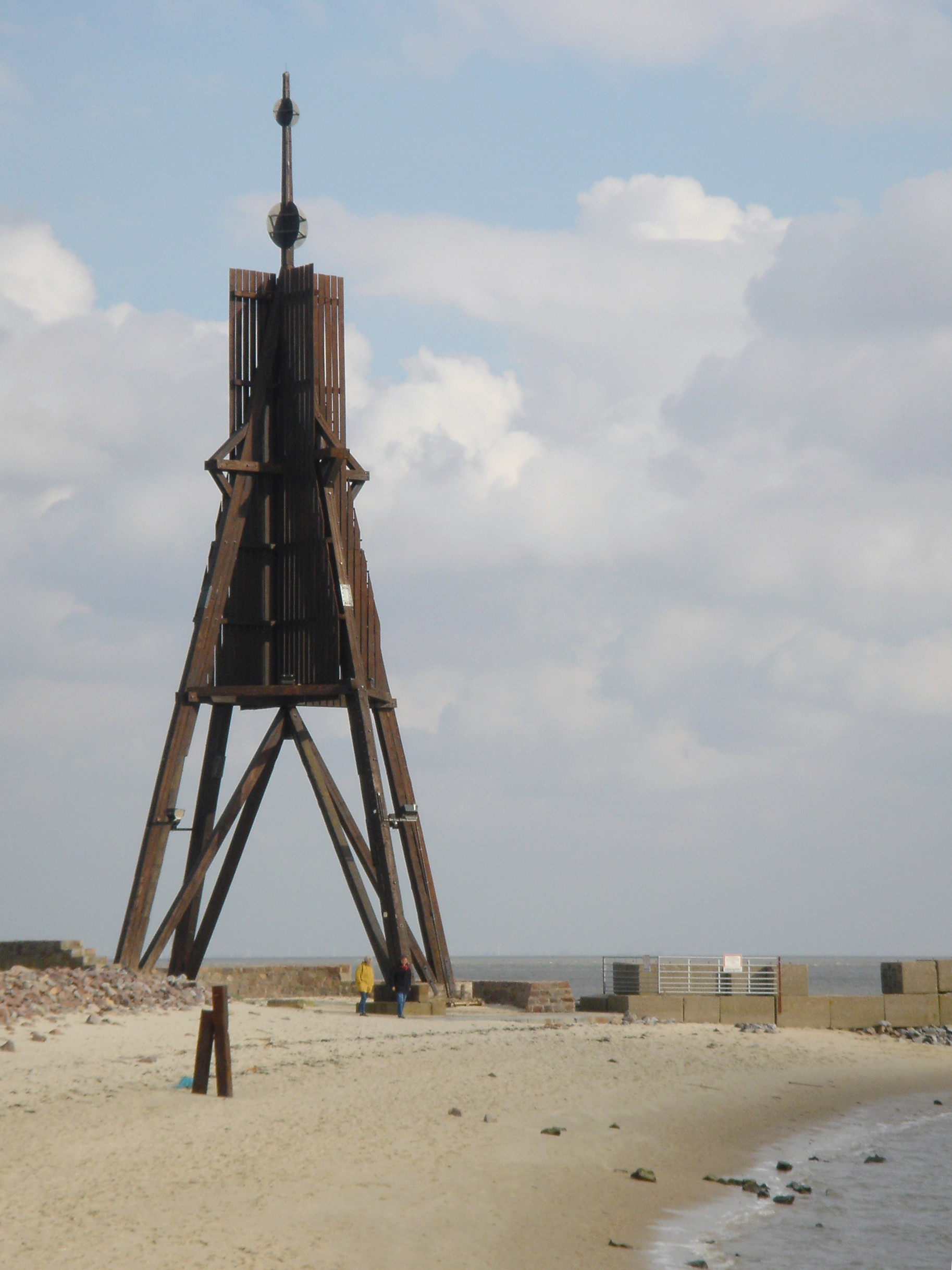 The Kugelbake in Cuxhaven